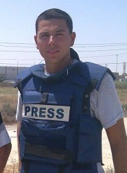 Ayman Mohyeldin in Gaza